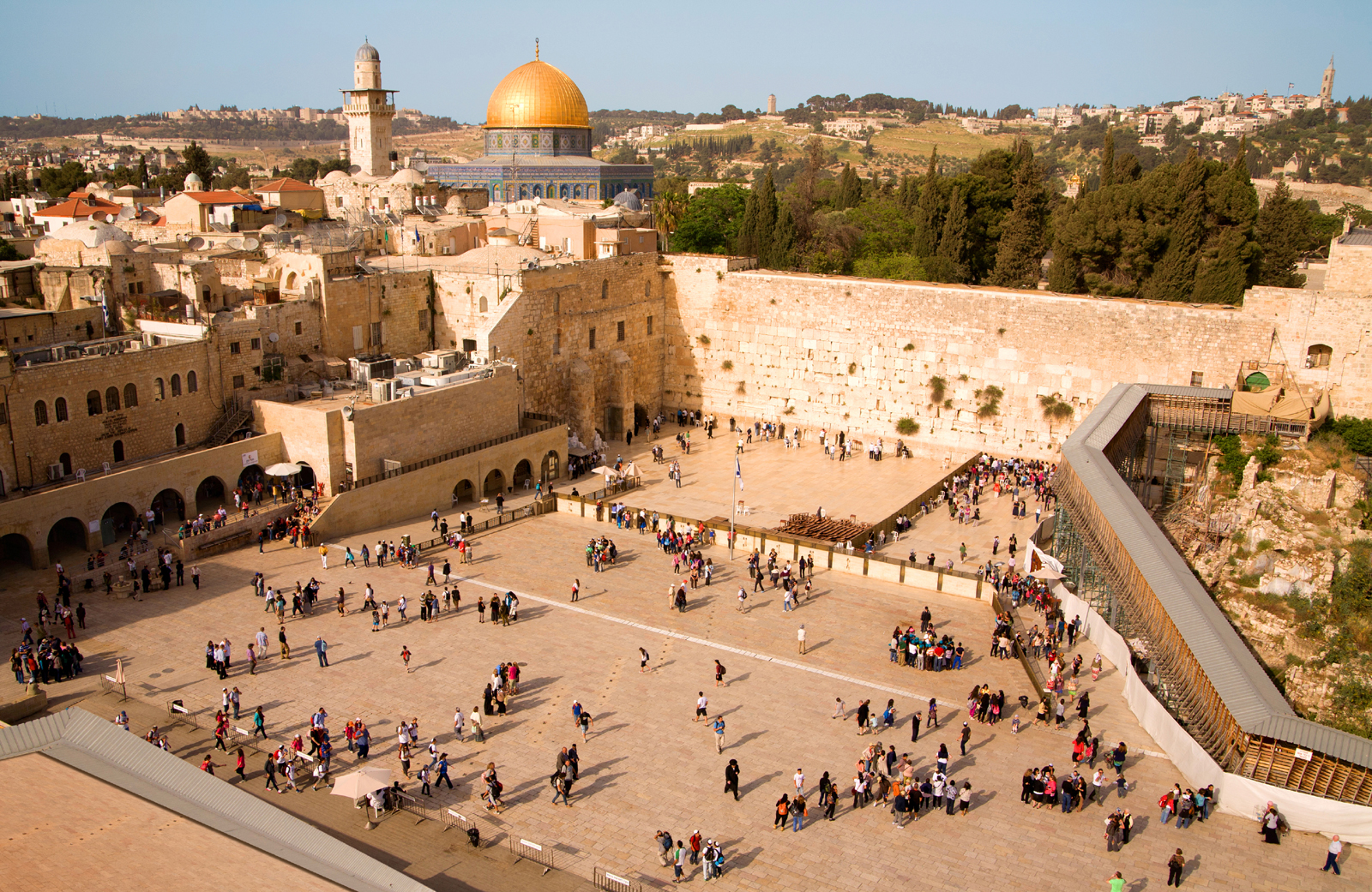 The Western Wall, Jerusalem, Israel.